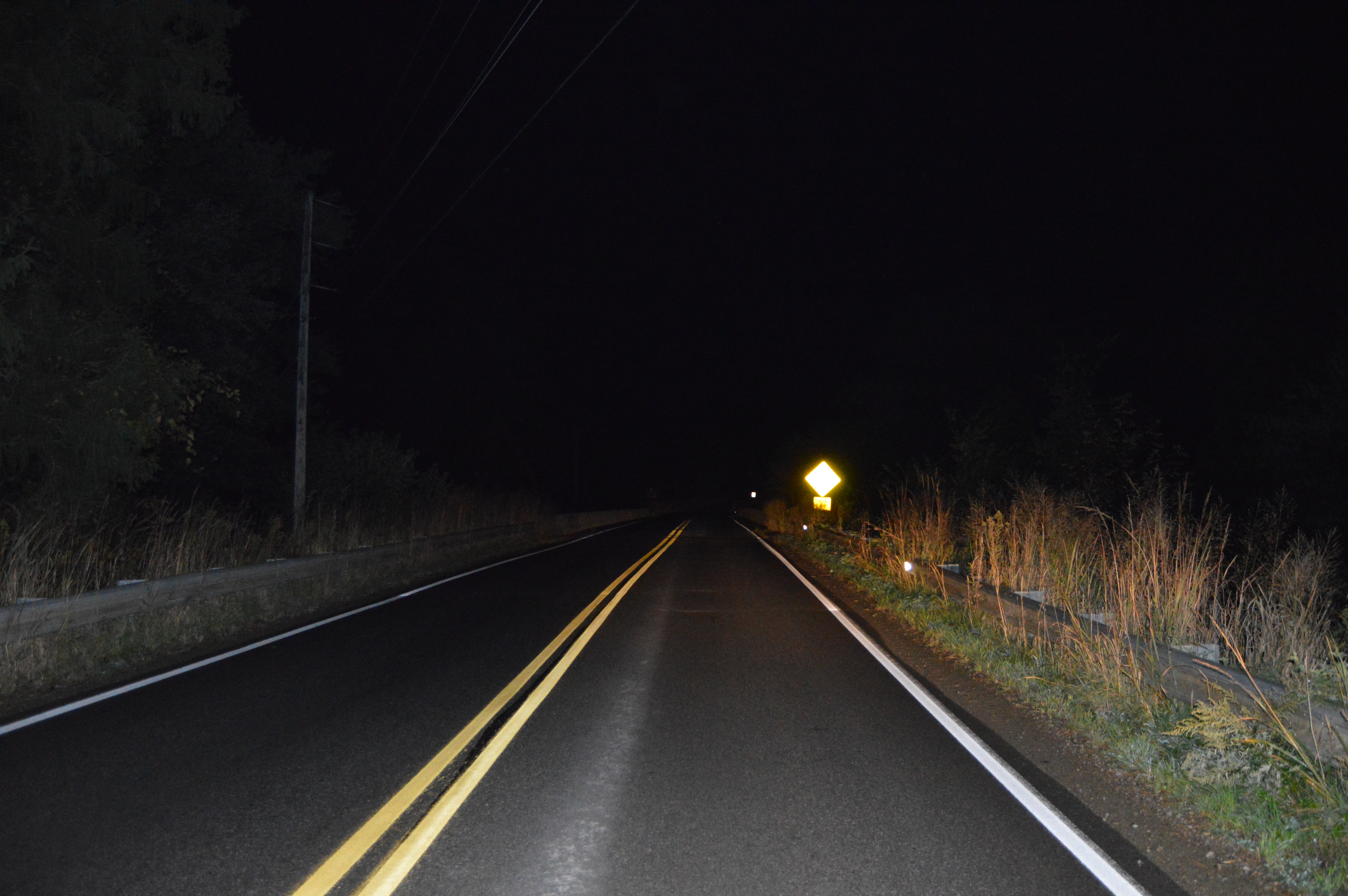 Overview of the bridge that carries Wilson Chutes Road over French Creek in West Mead Township, Crawford County, Pennsylvania, United States. It replaced the Bridge in West Mead Township, which was built in 1888 and listed on the National Register of Historic Places in 1988; although destroyed, it has not yet been removed from the Register.